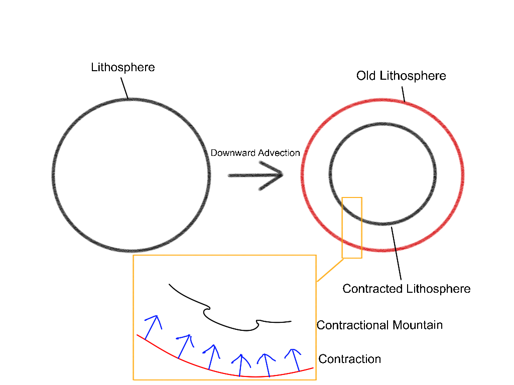 Downward advection of surficial volcanic materials result in the contraction in length of the lithosphere. Lithosphere is then forced to folded up, forming contractional mountain.